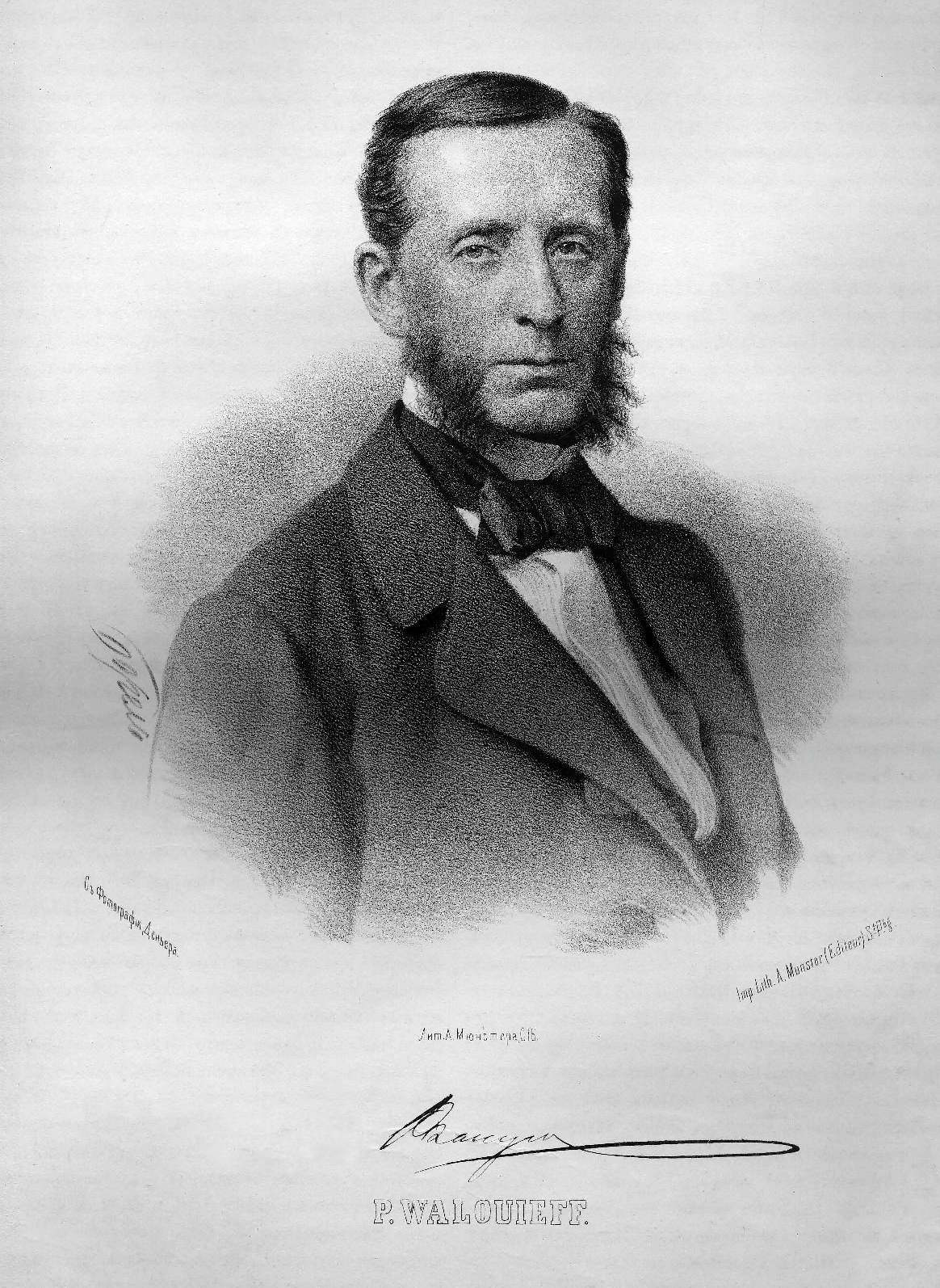 Pyotr Valuev